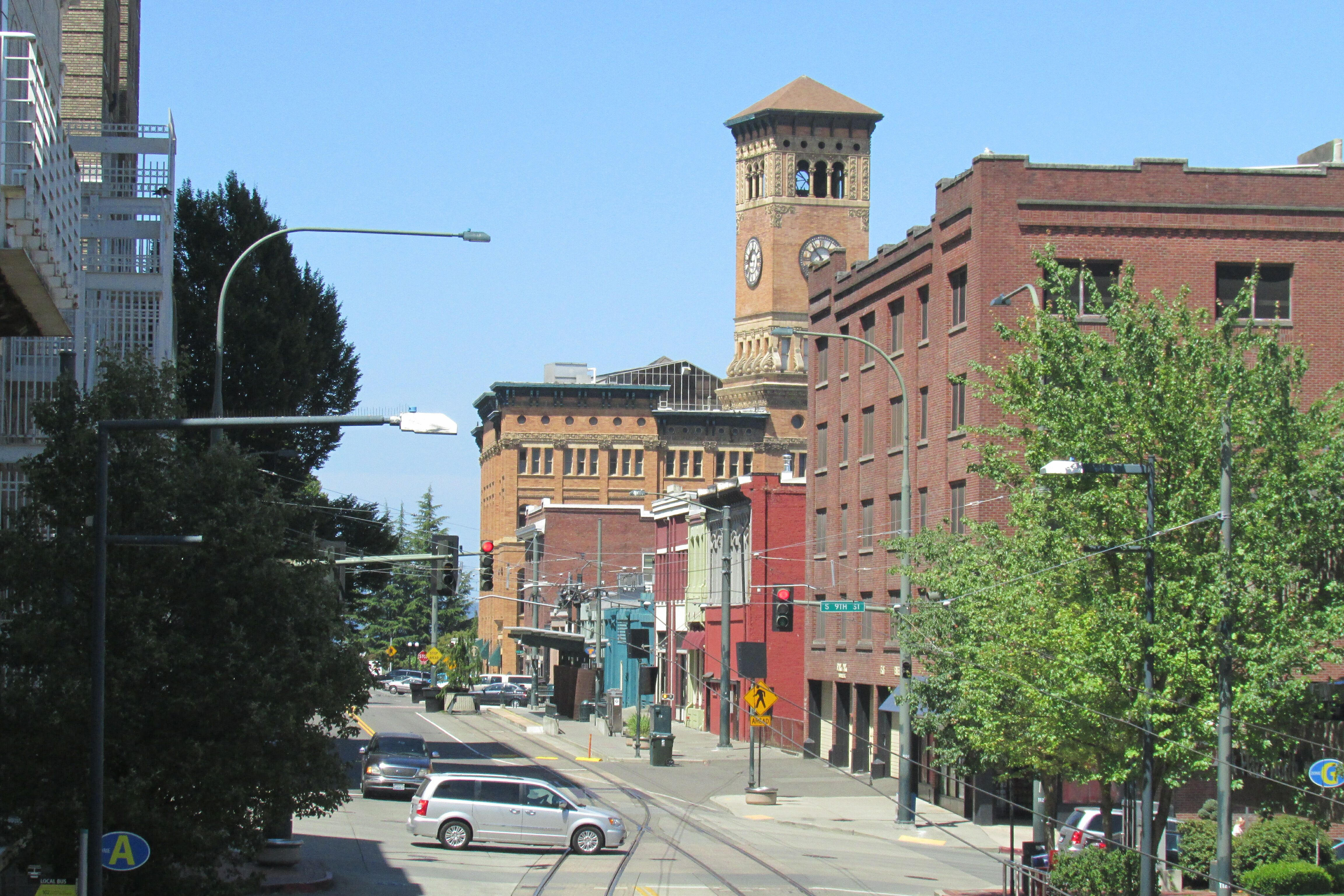 Commerce Street looking north, Tacoma, Washington